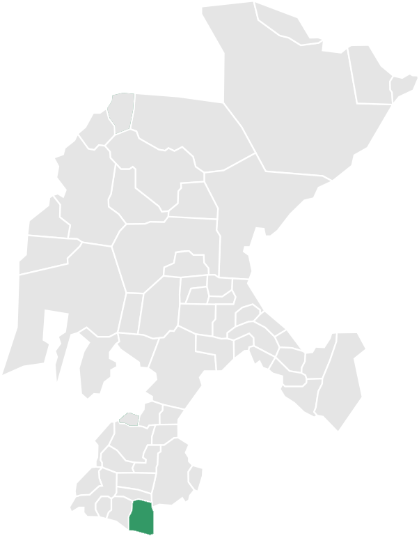 Map of the Municipality of Moyahua de Estrada in Zacatecas, México.